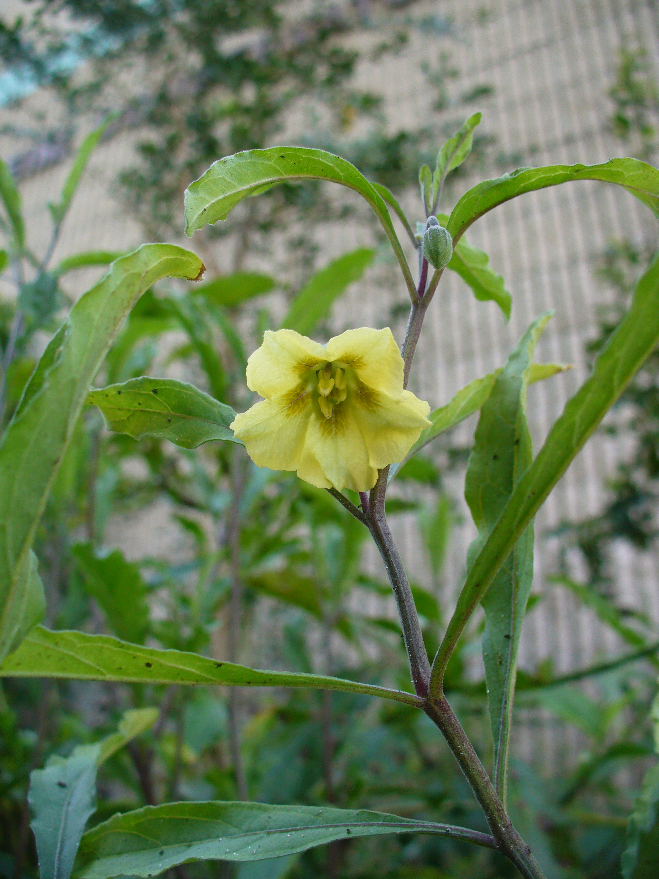 Main campus, Florida International University, Miami, FL, USA.